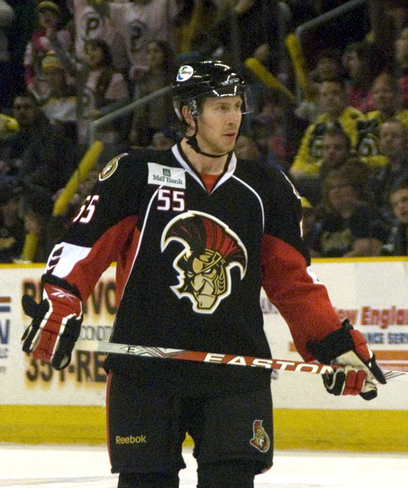 pbruinsbsens97 Photo taken on January 9, 2011 by Sarah Connors. This photo also appears in sarah_connors' Flickr photostream B-Sens @ Providence, 1/9/11 (Set: 174) Flickr Tags: bruins pbruins ahl nhl senators ottawa senators Binghamton senators Boston bruins providence bruins icehockey hockey